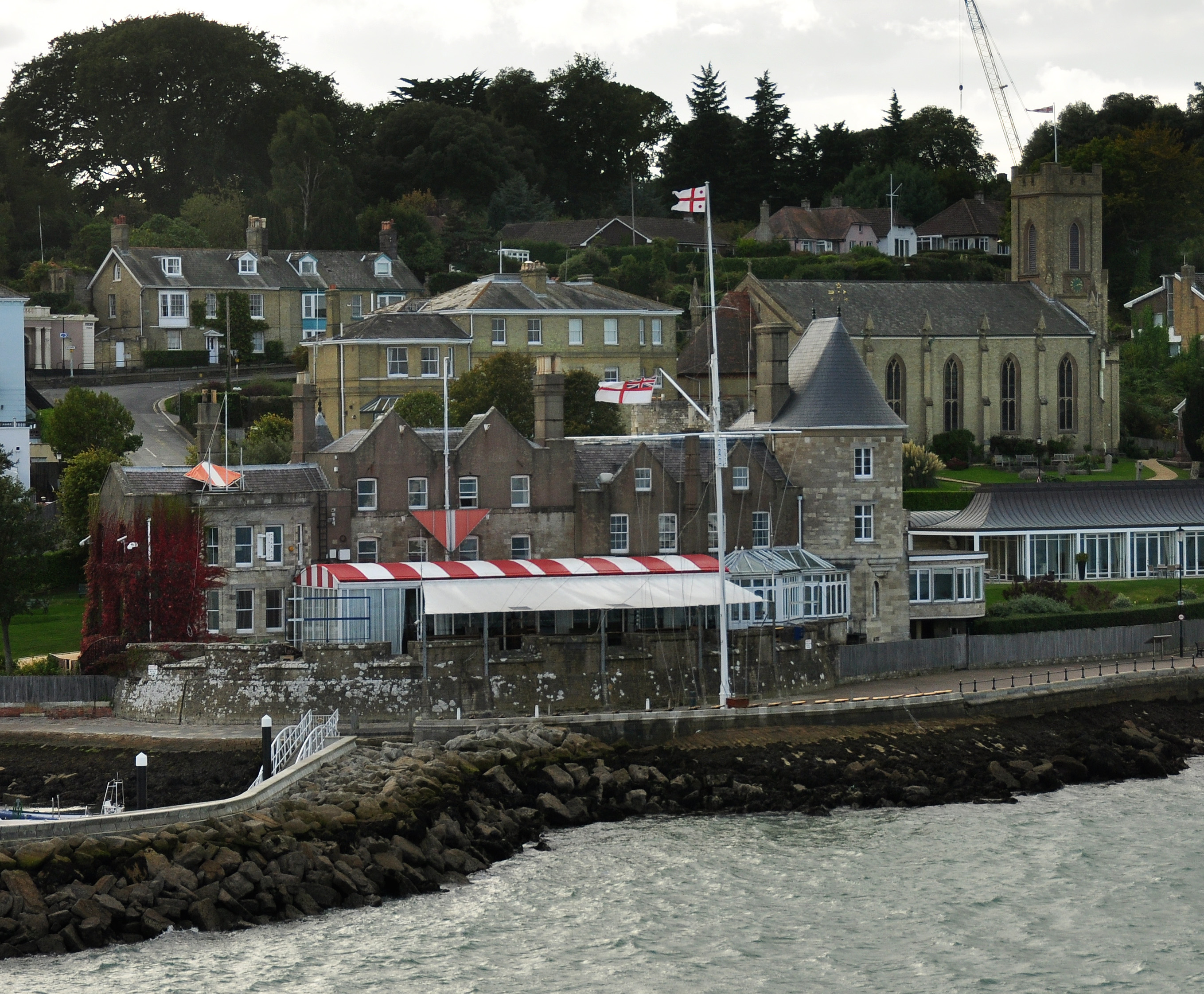 West Cowes Castle, now the clubhouse of the Royal Yacht Squadron, in Cowes on the Isle of Wight. Holy Trinity Church is visible in the background.